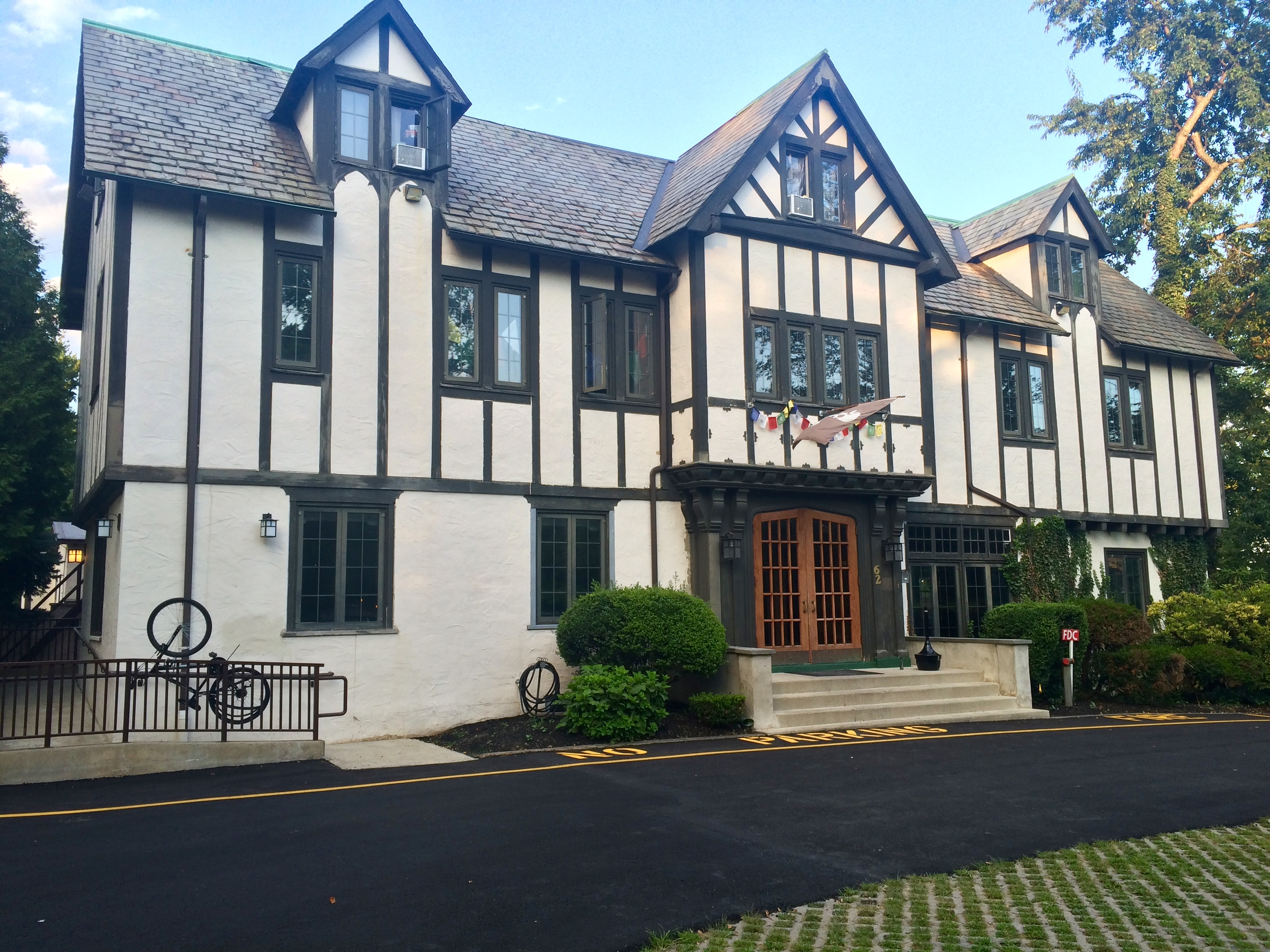 Terrace Club, one of the Eating clubs of Princeton University, located at 62 Washington Road in Princeton, New Jersey